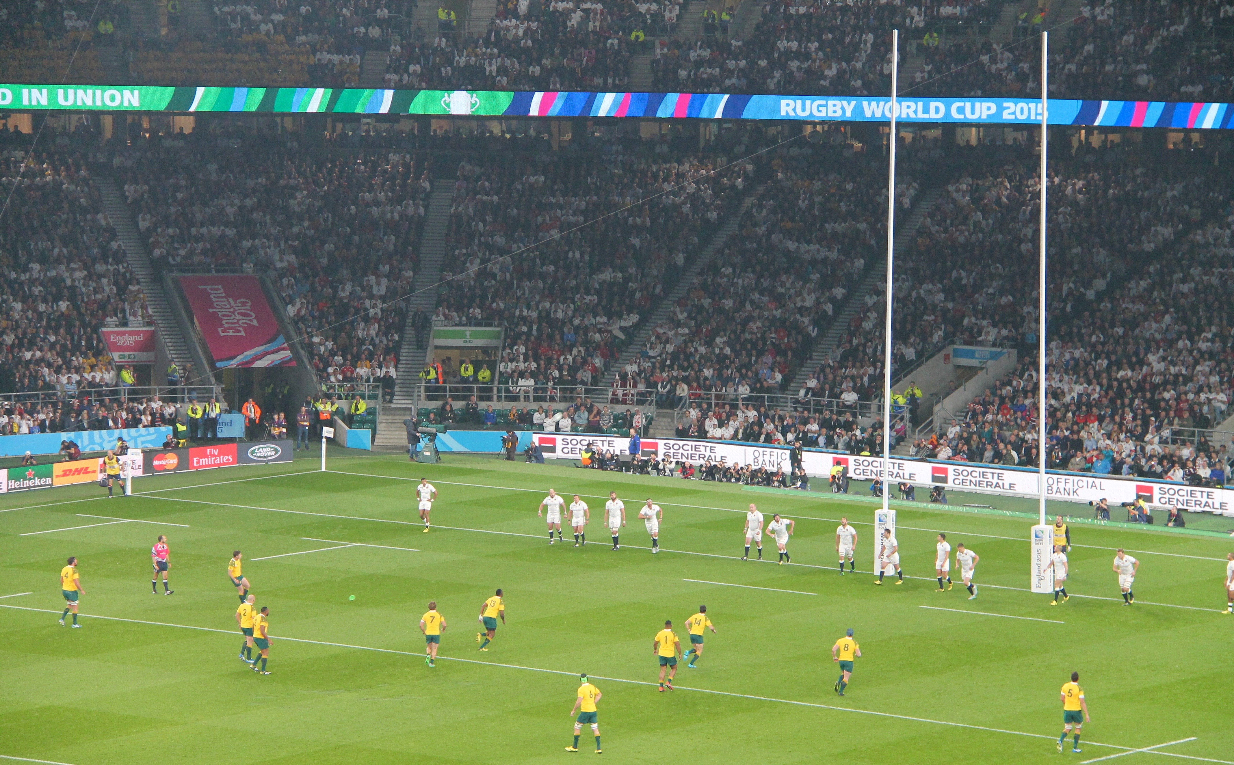 2015 Rugby World Cup match between England and Australia at Twickenham Stadium, London.